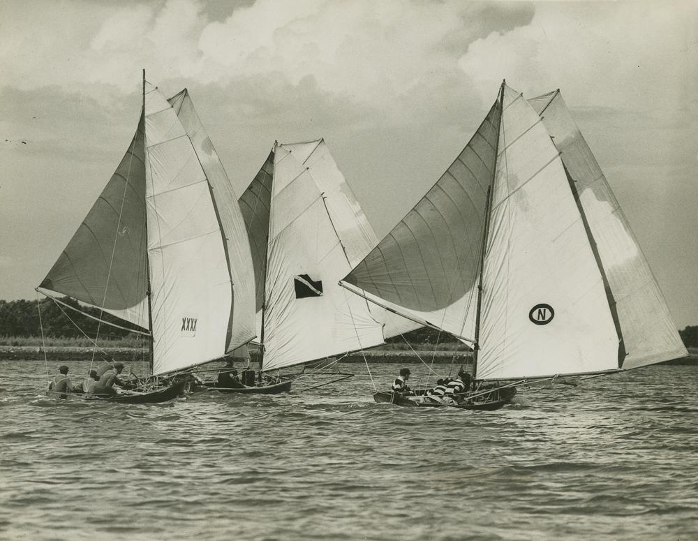 Twelve foot skiffs under full sail on the Hamilton Reach section of the Brisbane River